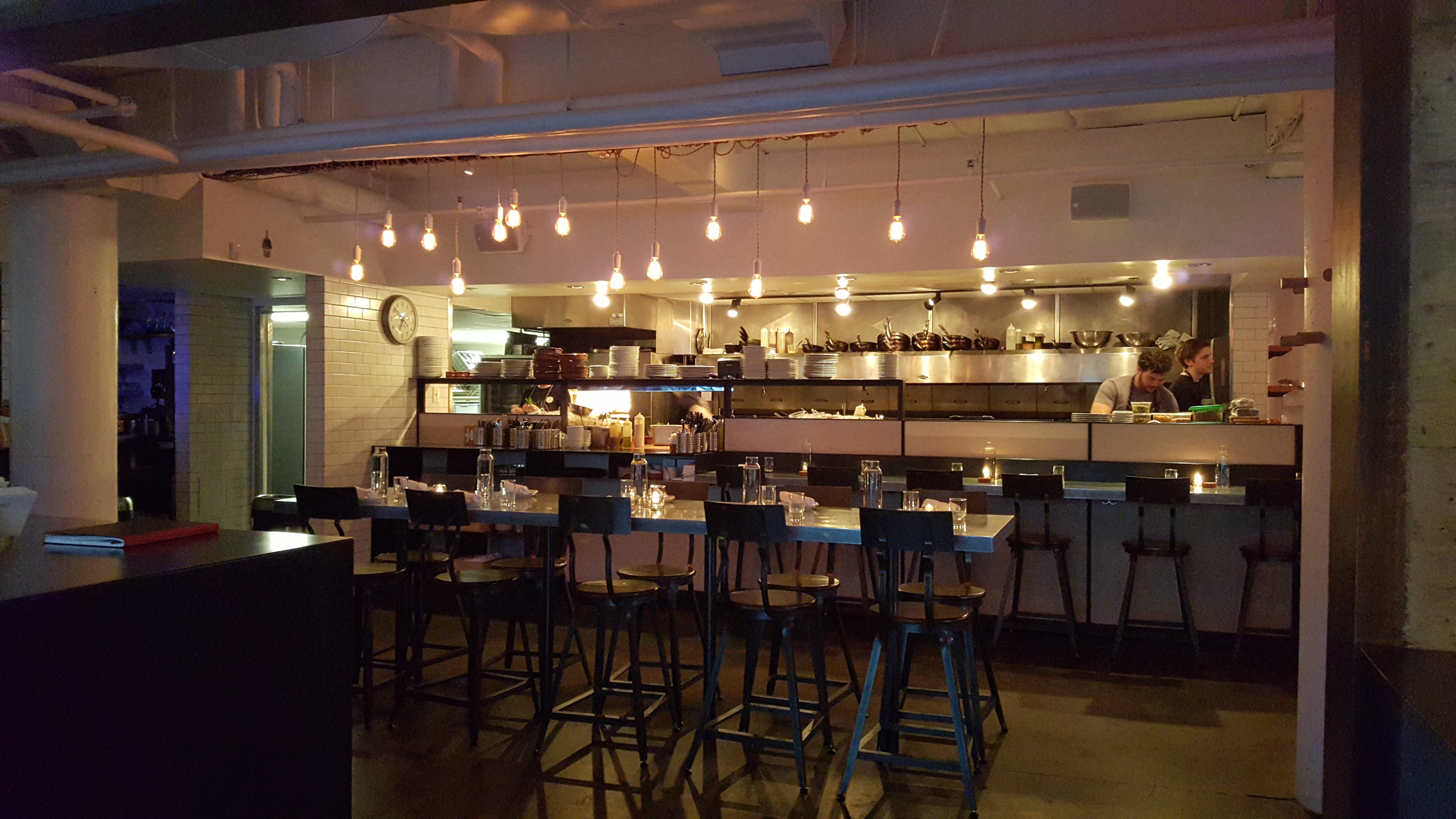 Mediterranean Exploration Company in Portland, Oregon, 2016